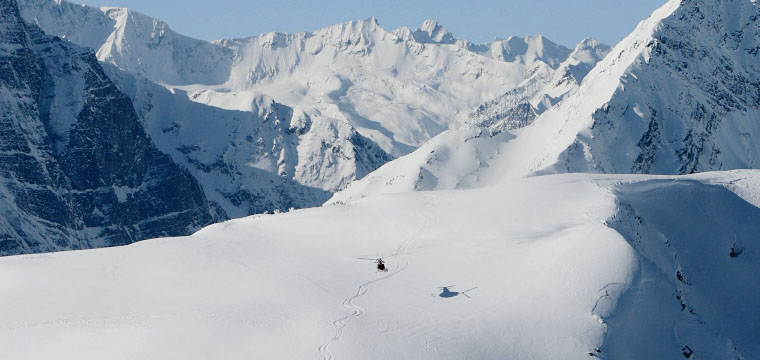 Aerial view of a small group heliskiing